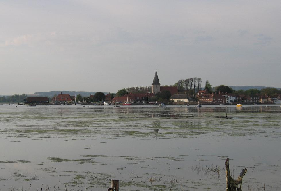 The village of Bosham, seen across Chichester Harbour. Sunday May 1, 2005.